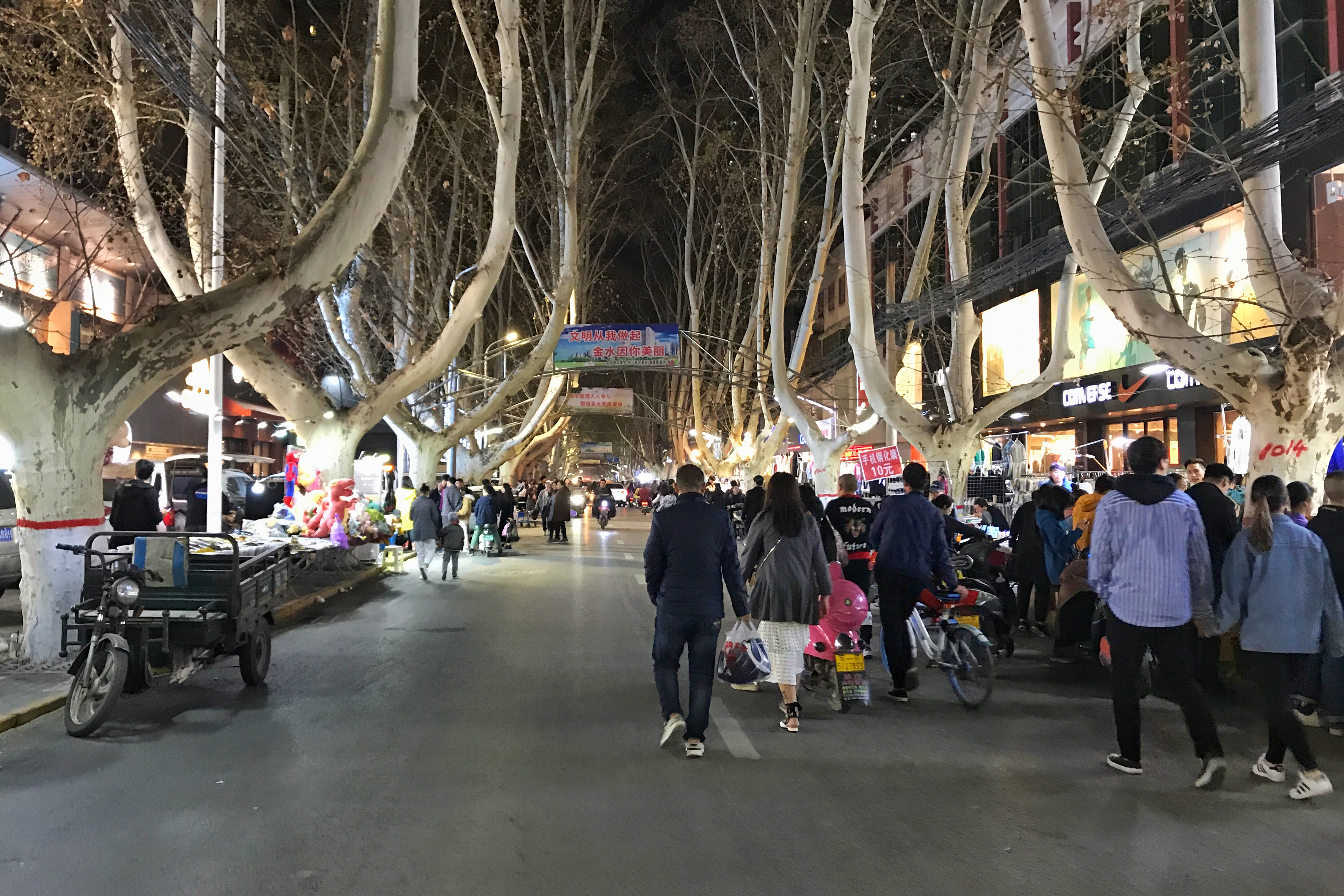 Night market on Jiankang Road in Zhengzhou, China